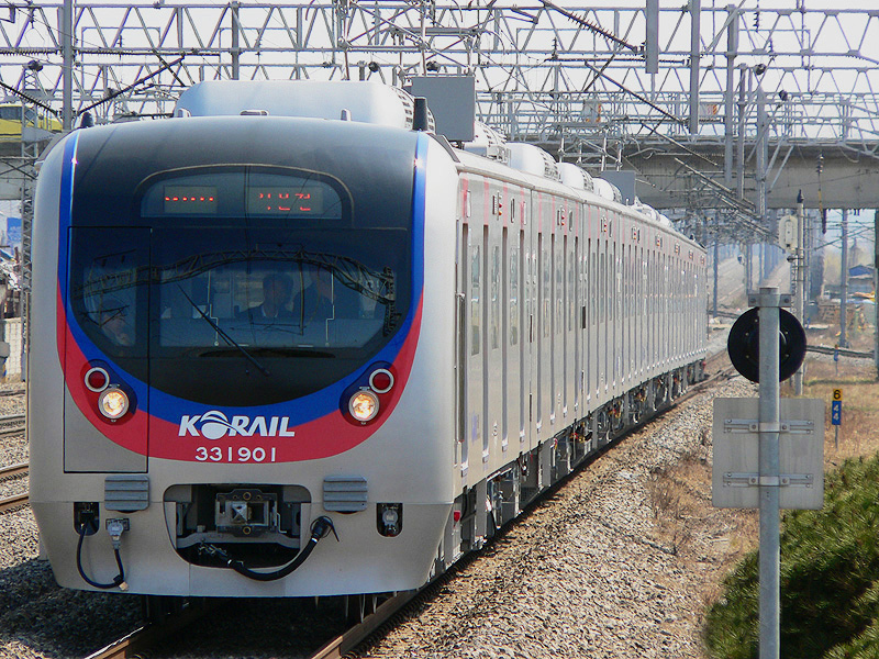 KORAIL 331000series EMU